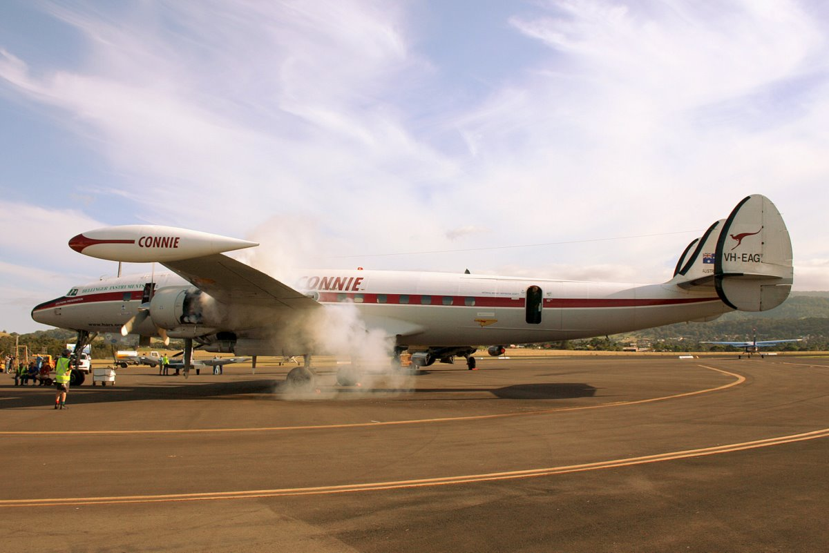 The No. 1 Wright R-3350 engine starts on Lockheed Super Constellation Southern Preservation of Australia's Historical Aircraft Restoration Society at Illawarra Regional Airport. The aircraft is an ex-United States Air Force C-121C (Lockheed Model 1049F), c/no. 4176, s/no. 54-0157